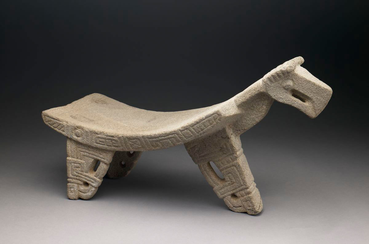 A metate, a ceremonial grinding stone. This one is from the Nicoya culture of Costa Rica.